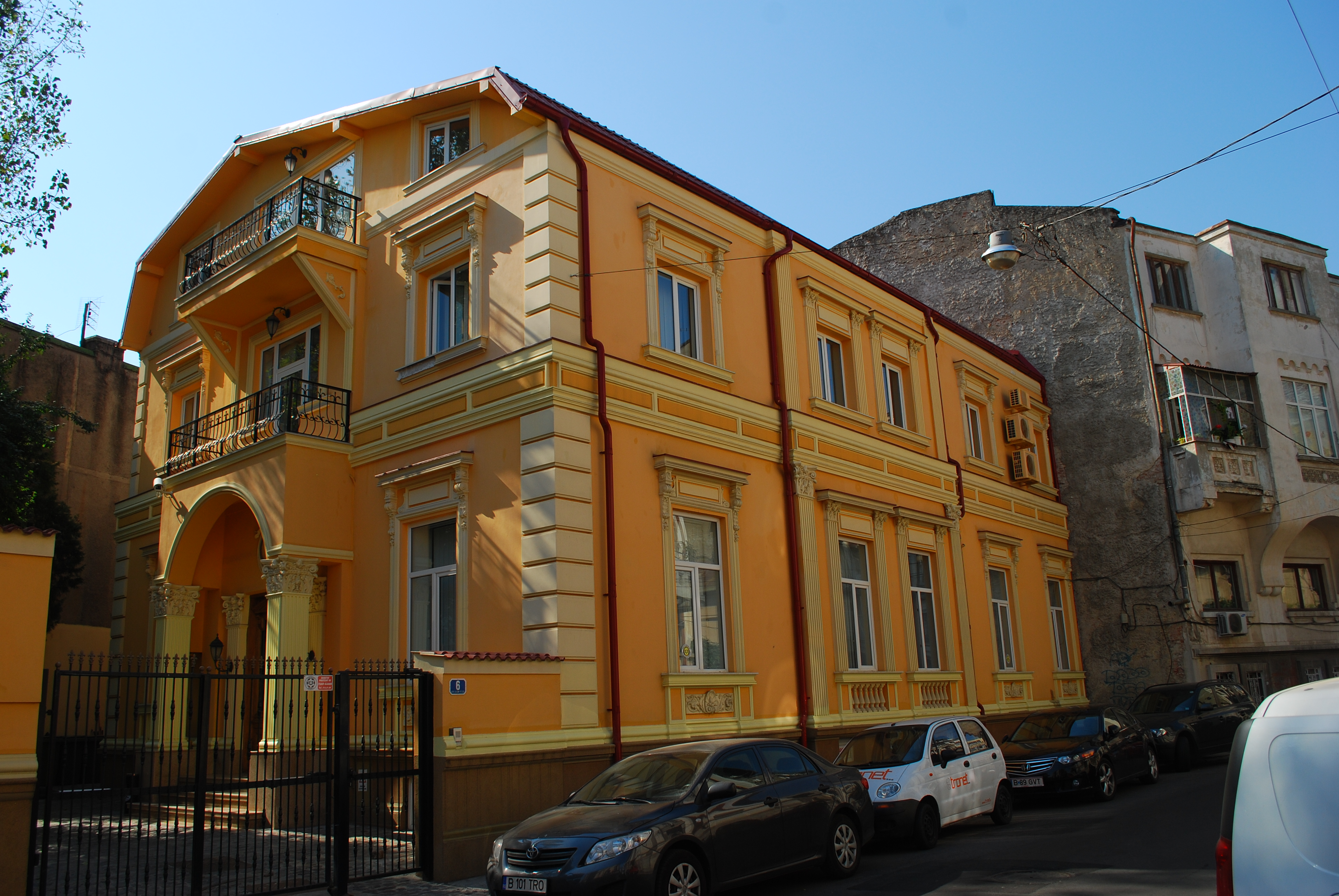 Historic building in Bucharest, Romania, on Radu Calomfirescu street 6